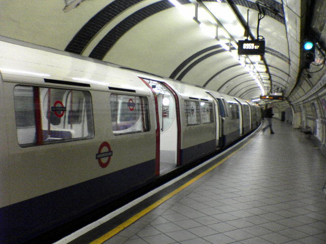 A train of 1972 (MkII) Bakerloo Line stock waits at the southbound platform at Lambeth North.